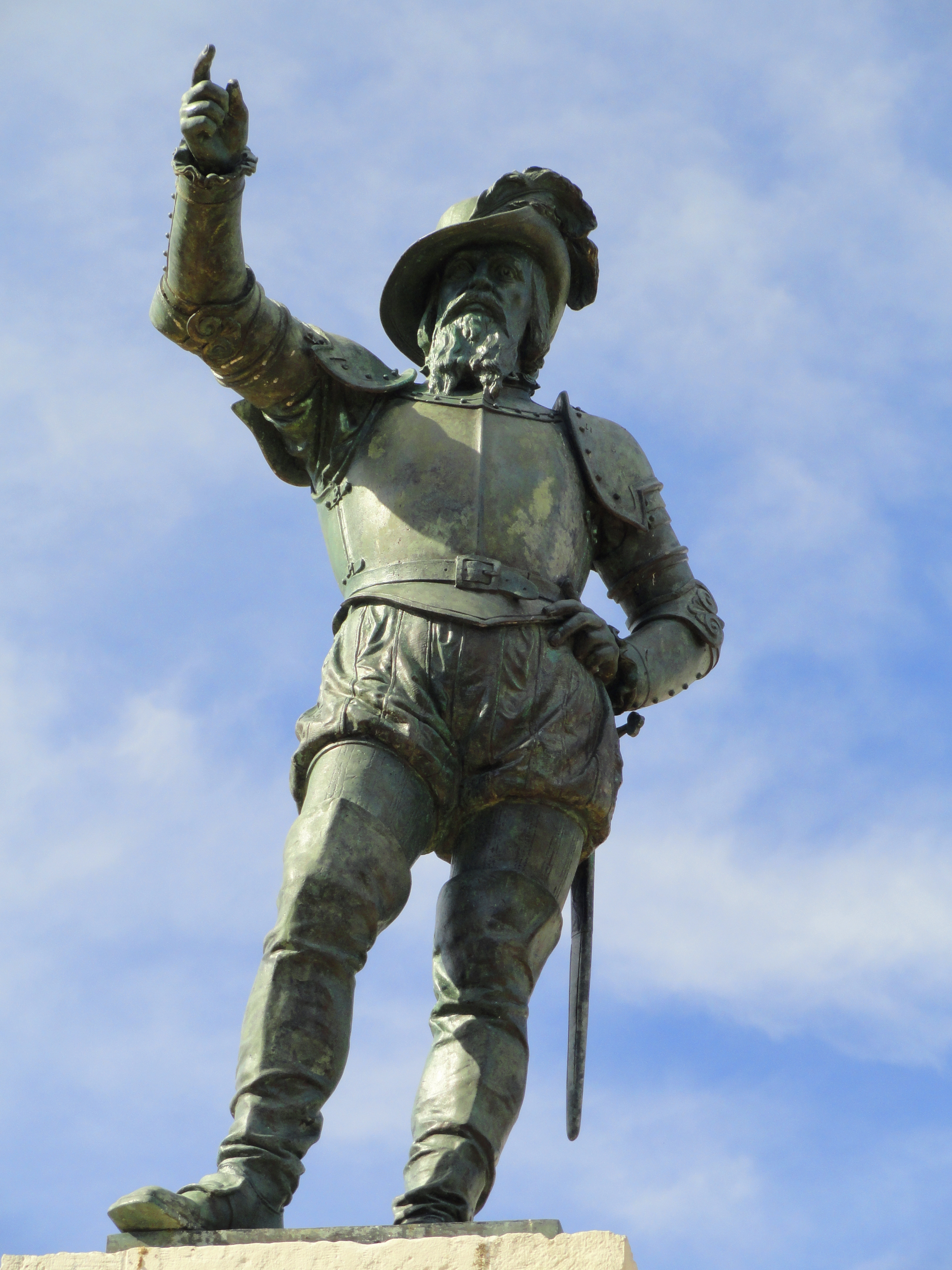 Ponce de León statue in the Plaza de San José, Old San Juan, Puerto Rico. The origin of this statue is obscure; various Internet searches give hints that the sculptor might be Cristina Carreño of Asturias, Spain, and it might have been cast in New York in 1882. ( and "Sobre la estatua de Ponce de León" in the Boletin Mercantil, San Juan, July 9, 1882.) It is clearly old enough to be in the public domain.